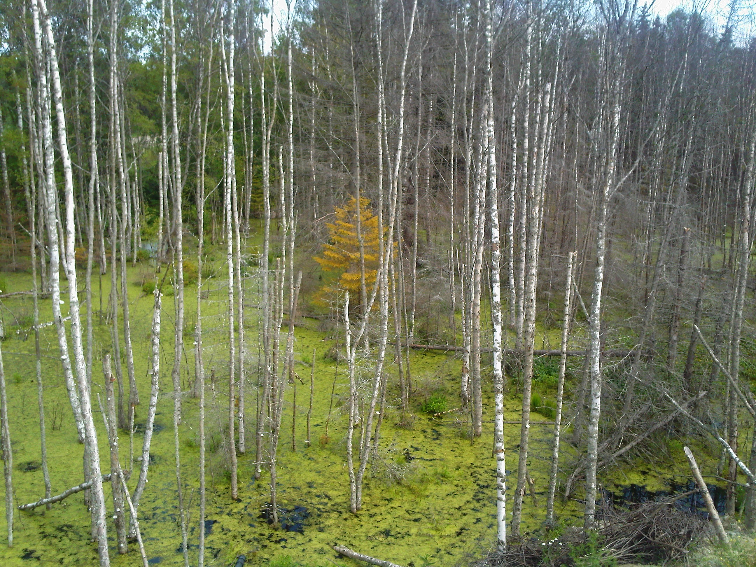 Birches in a swamp in Rohuneeme, Northern Estonia. Waterlogged probably due to human activity.